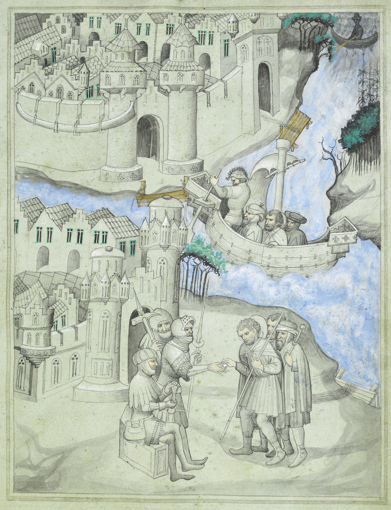 Upper scene. A group of travellers in a sailing boat approach the town dock at Jaffa. One of the town's curiosities, the rib of a giant, hangs from the town walls. Below, the travellers pay duty before entering Tyre, with the impressive fortifications